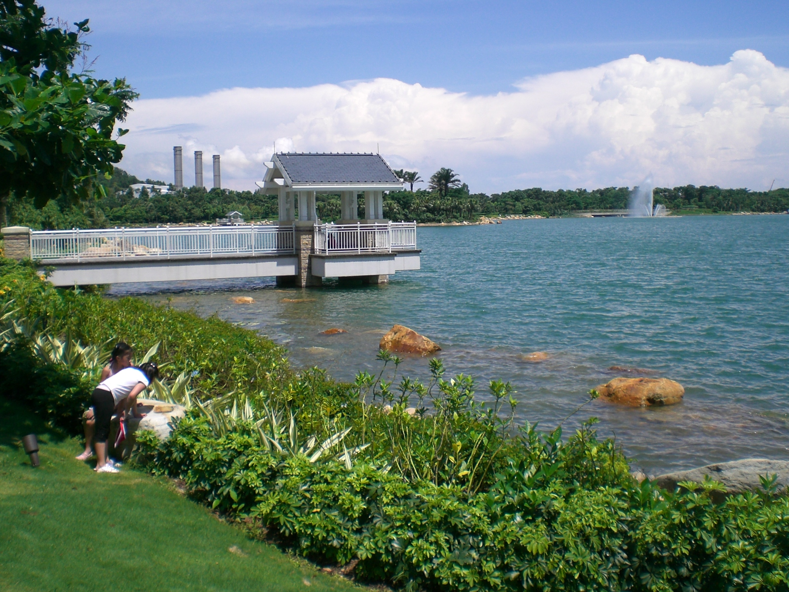 大嶼山迪欣湖活動中心 June 16th, 2007 夏天 湖心涼亭 遠觀背景是 竹篙灣發電廠 三支zh:煙囪